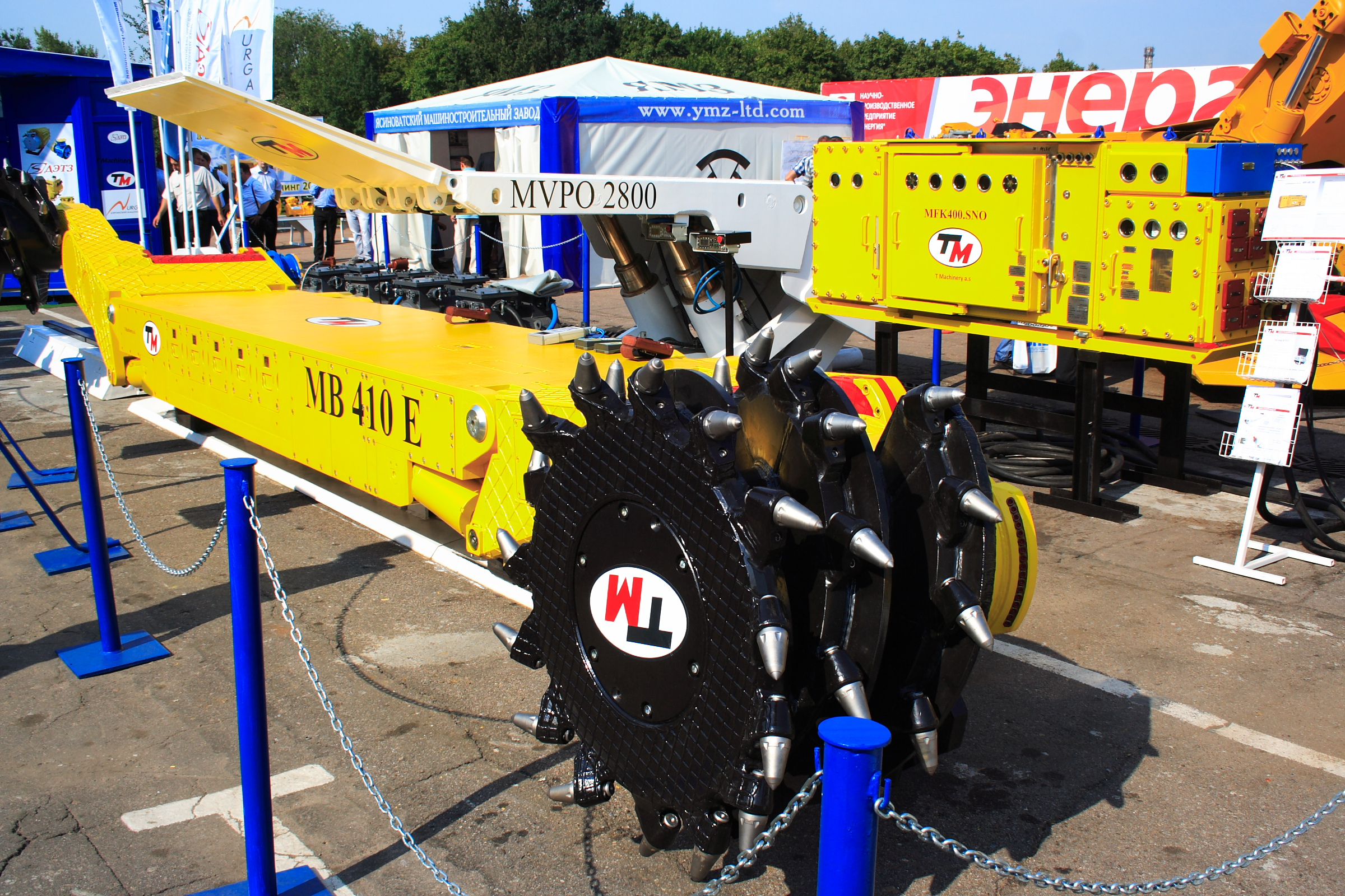 Coal shearer on Coal/Mining 2012 exhibition in Donetsk